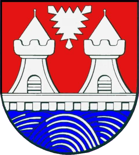 Coat of arms of the Stadt (town) Itzehoe in Schleswig-Holstein, Germany.